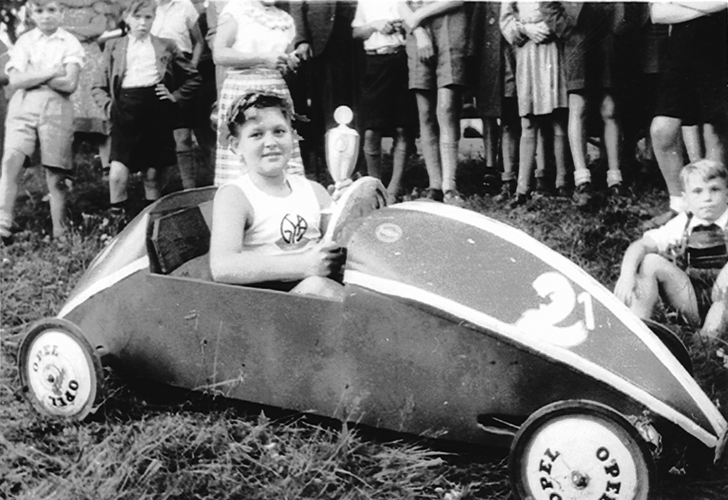 Soap Box derby on the road to the Saalburg castle in Bad Homburg, Germany, on August 23, 1950. The winner is Helmut Barth from Oberursel, Germany. The race was organized by the U.S. Armed Forces German youth activities program. Seifenkistenrennen Saalburg-Chaussee Bad Homburg v.d.H. 23.8.1950. Helmuth Barth aus Oberursel siegt. Das Rennen wurde von den German Youth Activities der US-Streitkräfte veranstaltet.